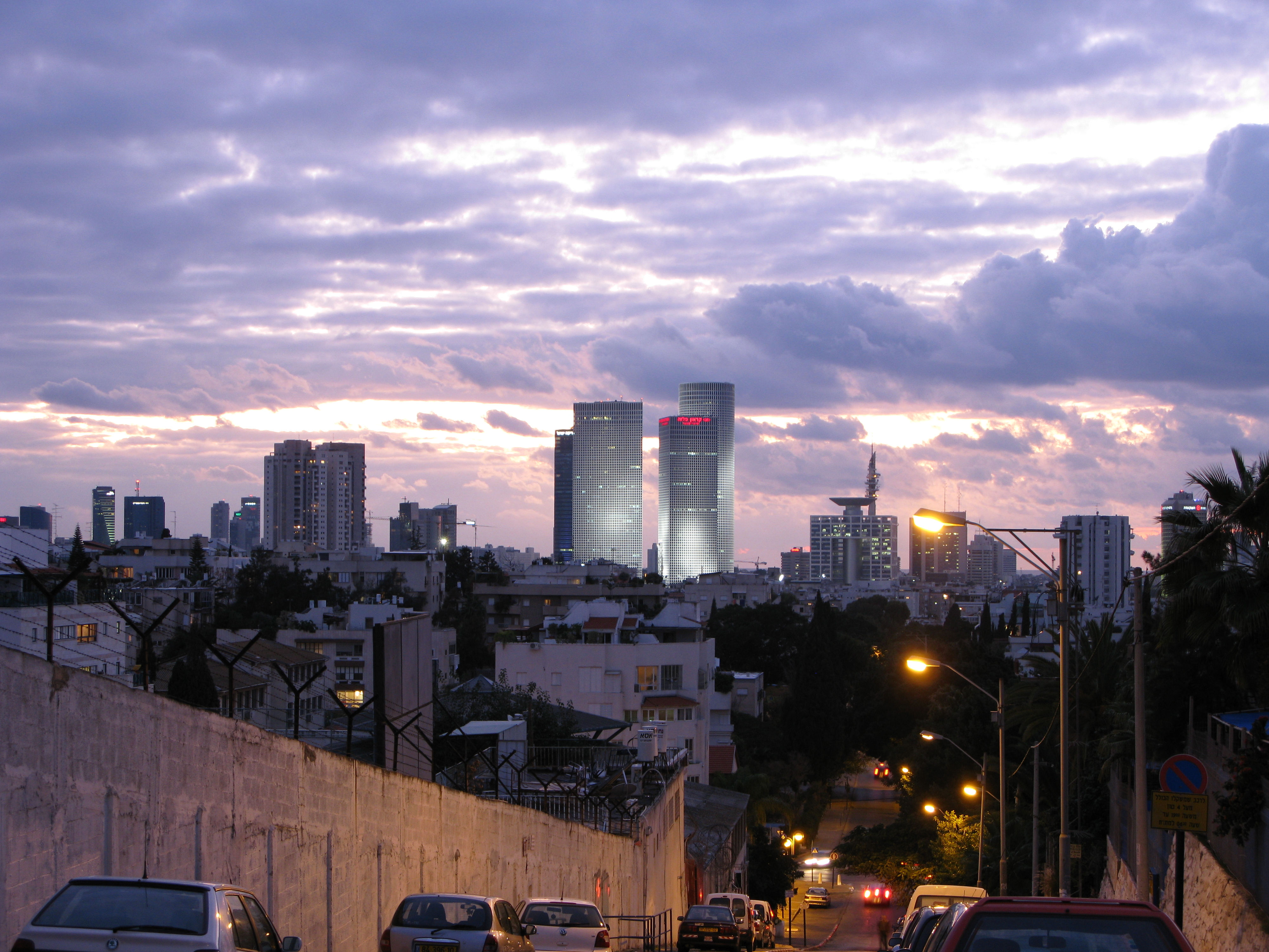 Borochov street seen down from the "Machtesh" area.